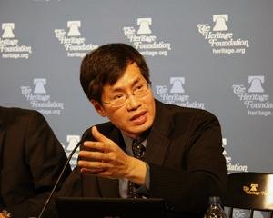 Lo Chih-cheng at The Heritage Foundation